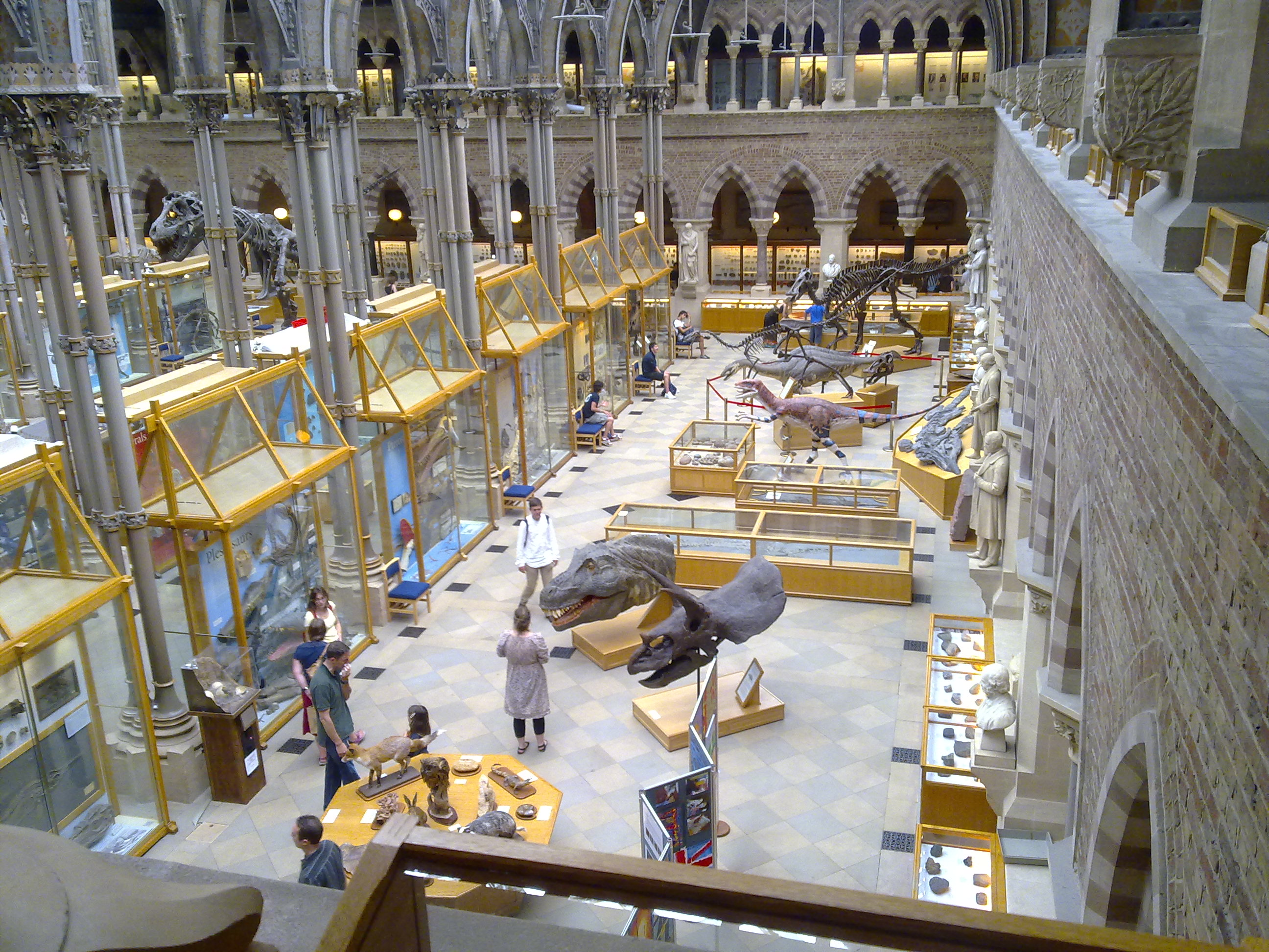 A portion of the ground floor displays at the Oxford Museum of Natural History.